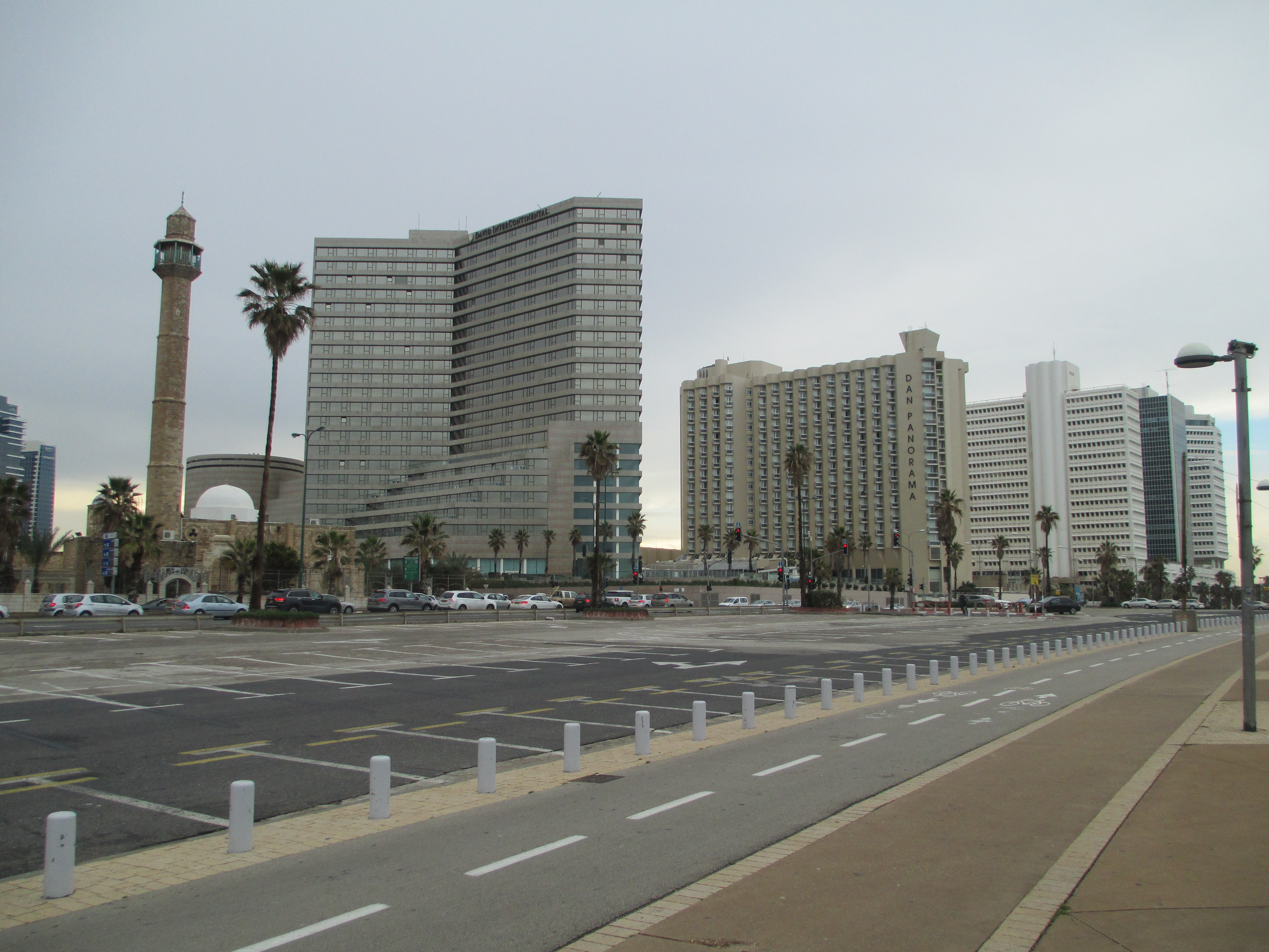 Hotels and Hassan Beck mosque in Tel Aviv